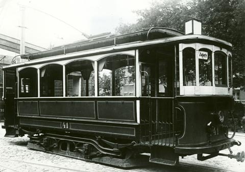 Carl Weyer